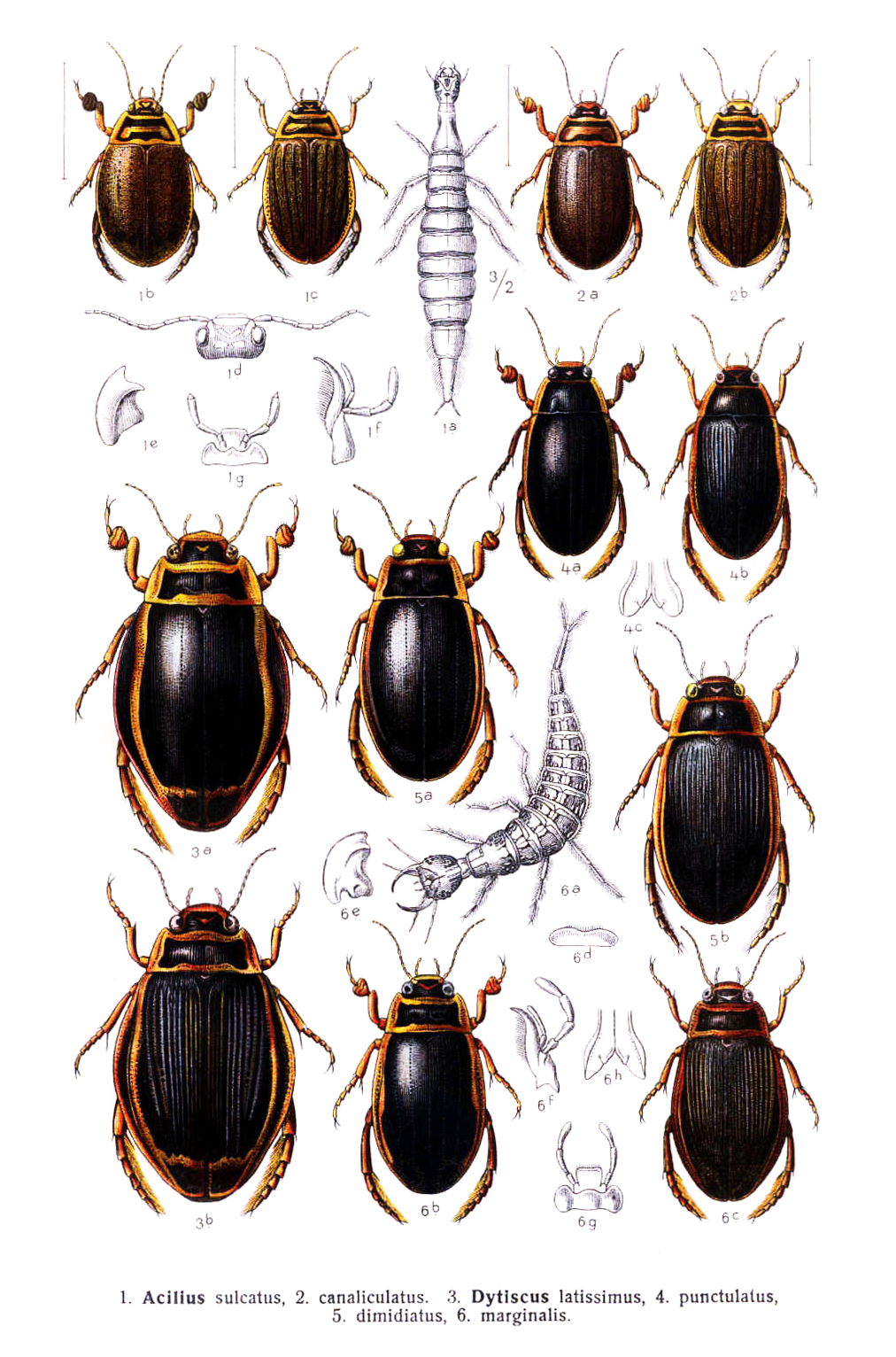 See image for index to numbers. Acilius sulcatus L. = Acilius sulcatus (Linnaeus, 1758) (1a: larva, dorsal view, 1b: adult male, dorsal view, 1c: adult female, dorsal view, 1d: head of adult from dorsal, 1e: mandible of adult, 1f: maxilla of adult, 1g: labium of adult) [Acilius] canaliculatus Nicol. = Acilius canaliculatus (Nicolai, 1822) (2a: adult male, dorsal view, 2b: adult female, dorsal view) Dytiscus latissimus L. = Dytiscus latissimus Linnaeus, 1758 (3a: adult male, dorsal view, 3b: adult female, dorsal view) [Dytiscus] punctulatus F. = Dytiscus semisulcatus O.F.Müller, 1776 (4a: adult male, dorsal view, 4b: adult female, dorsal view, 4c: hindcoxa appendages) [Dytiscus] dimidiatus Bergst. = Dytiscus dimidiatus Bergsträsser, 1778 (5a: adult male, dorsal view, 5b: adult female, dorsal view) [Dytiscus] marginalis L. = Dytiscus marginalis Linnaeus, 1758 (6a: larva, dorsal view, 6b: adult male, dorsal view, 6c: adult female, dorsal view, 6d: labrum of adult, 6e: mandible of adult, 6f: maxilla of adult, 6g: labium of adult, 6h: hindcoxa appendages of adult)